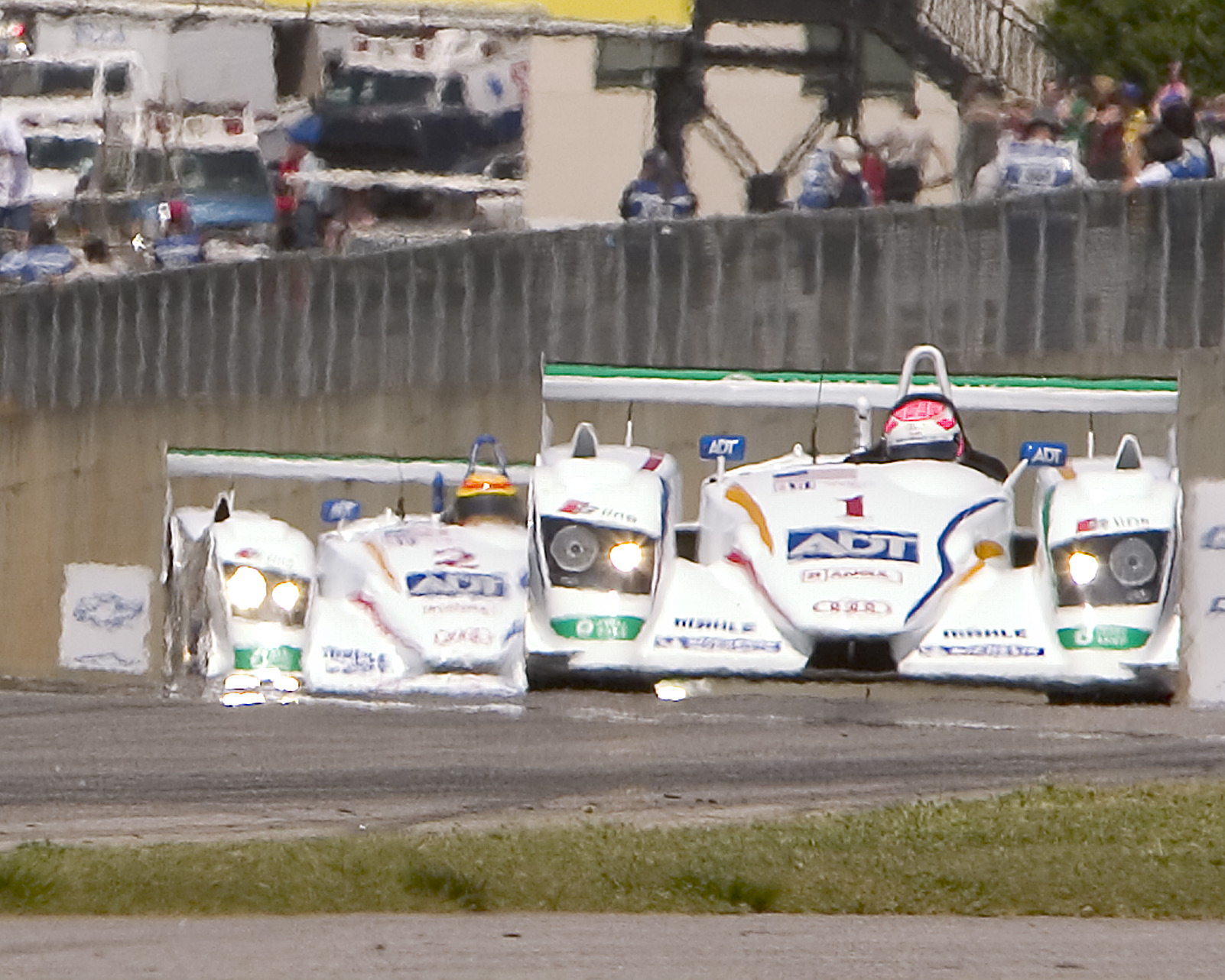 This is an image of the #1 & #2 Audi R8 LMP1 cars racing in the Grand Prix of Atlanta at Road Atlanta on April 17, 2005.Audi_start